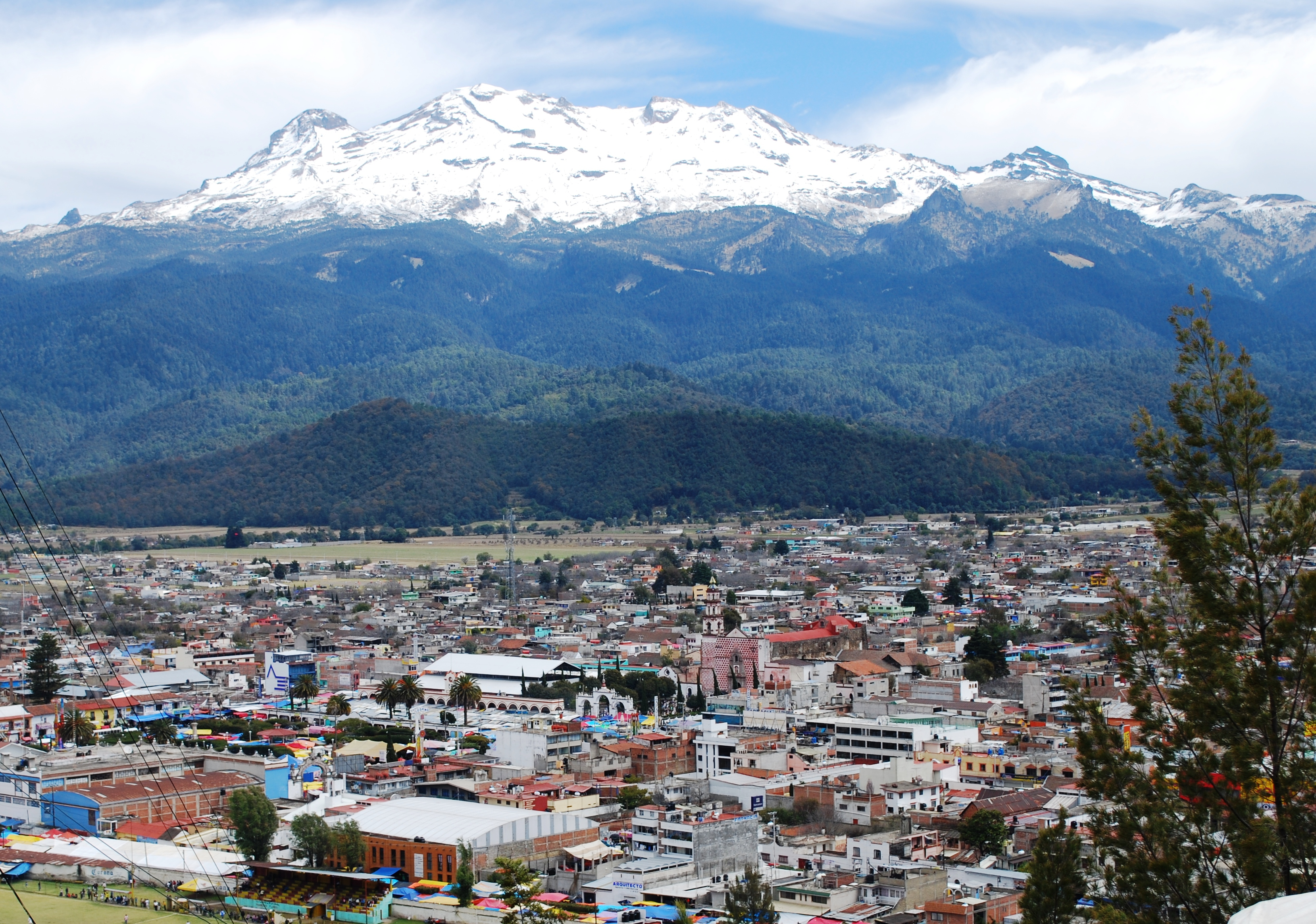 view of Amecameca with Iztaccihuatl in the background.